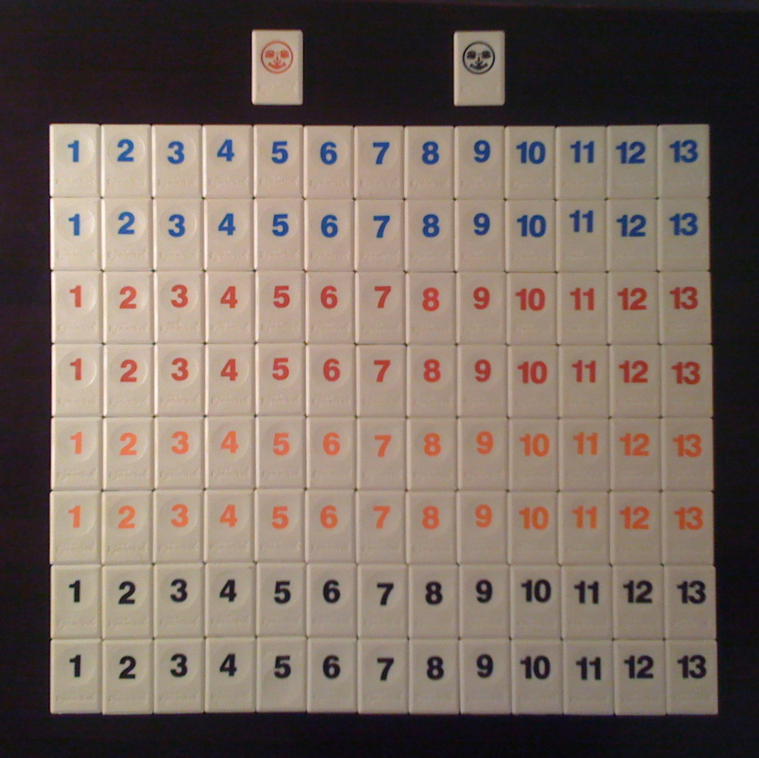 Rummikub's 106 tiles, consisting of 104 number tiles and two joker tiles. The number tiles range in value from one to thirteen, in four colors (black, yellow, blue and red). Each combination of color and number is represented twice.